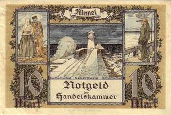 A lighthouse of Klaipėda on the 10 mark banknote. Money from Memel (1922). Translation from